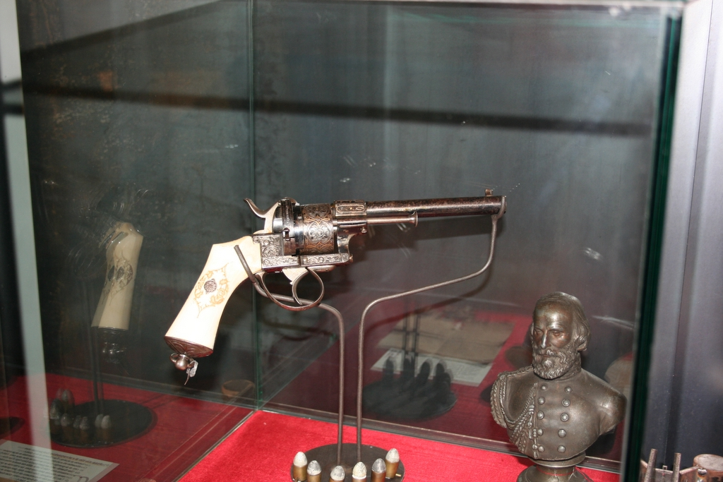 Garibaldi's Revolver